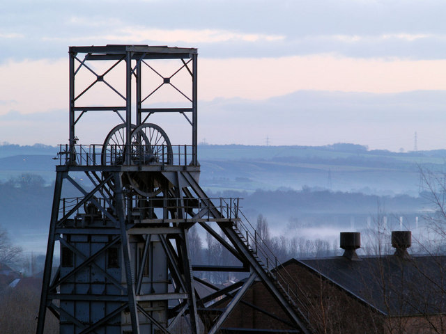 Former Barnsley Main Colliery head frame